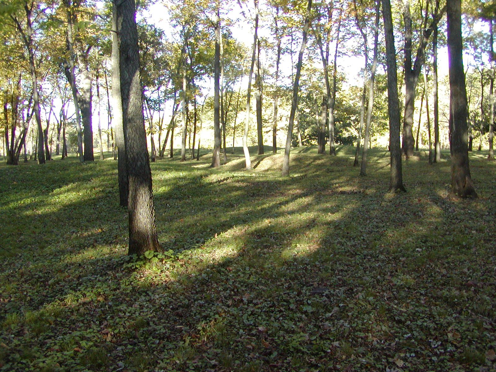 Effigy Mounds National Monument, Iowa. View of the Sny Magill Unit on the shore of Mississippi River South of McGregor, Iowa. The small hills are ancient mounds, created partly as burrial sites and community symbols by precolumbian indians of the Effigy Mound culture